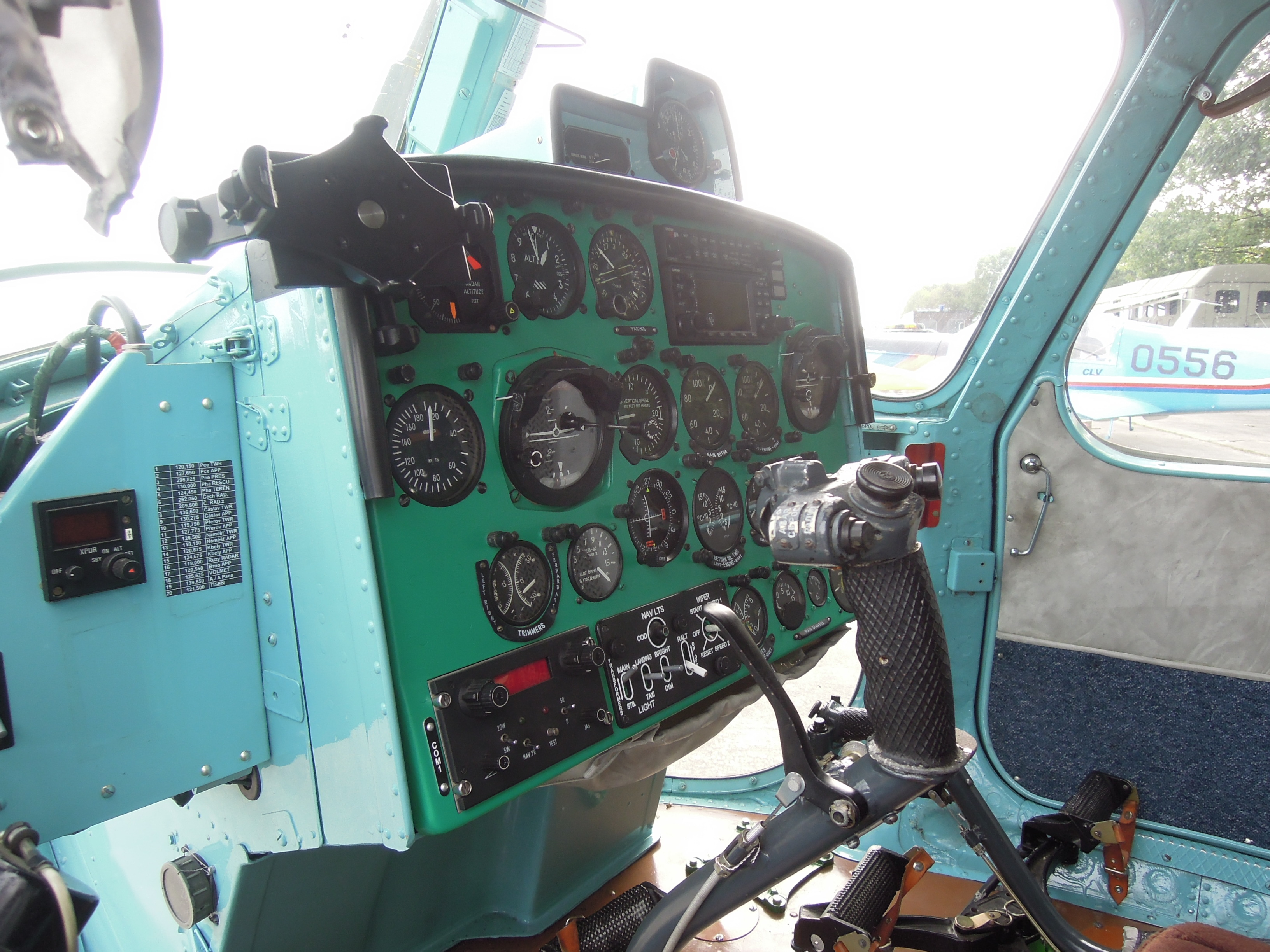 Helicopter Mil Mi-2, photo was taken during 2012 NATO Days in Leoš Janáček Airport Ostrava, Czech Republic